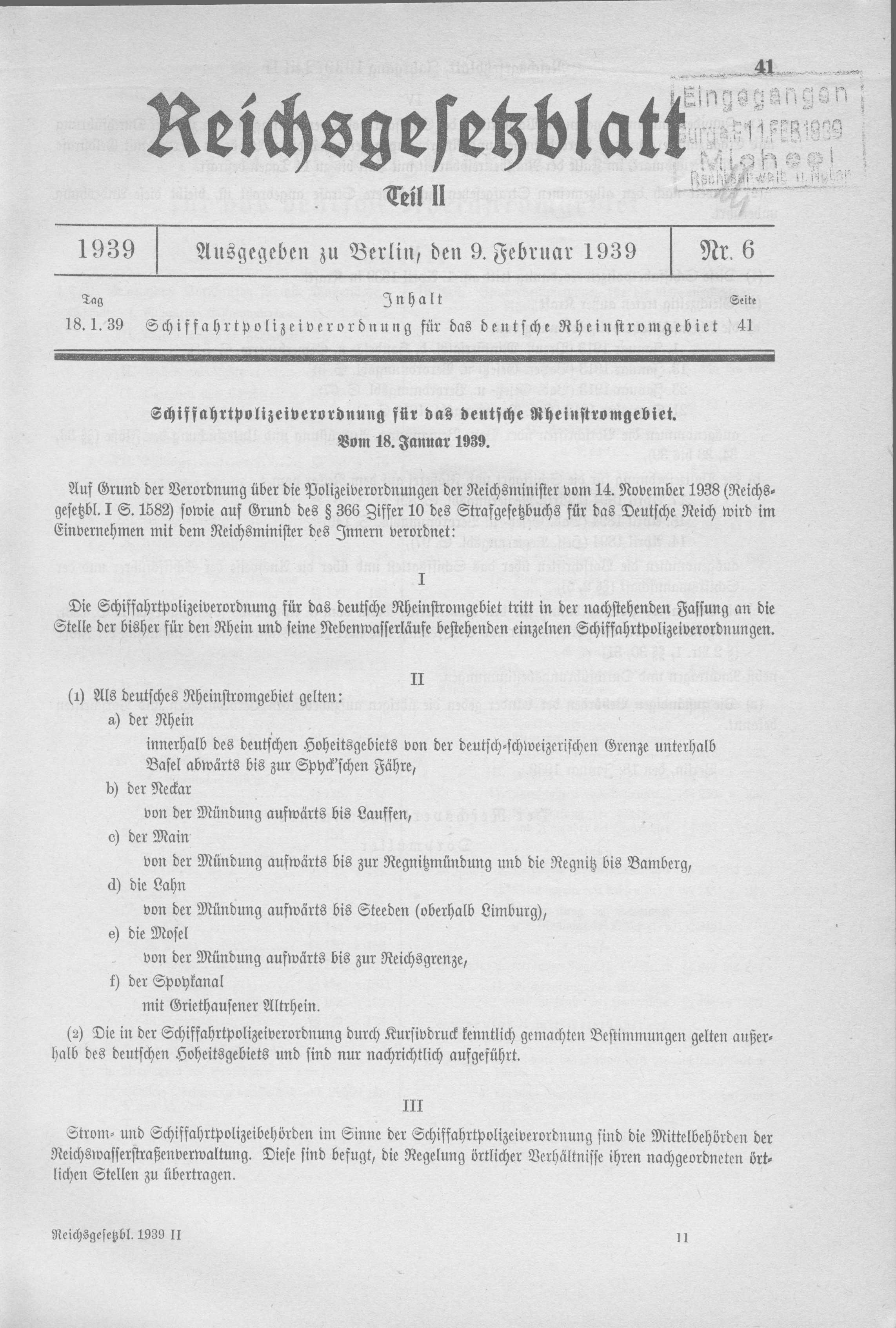 Scan from the Imperial Law Gazette of Germany, 1939, part 2